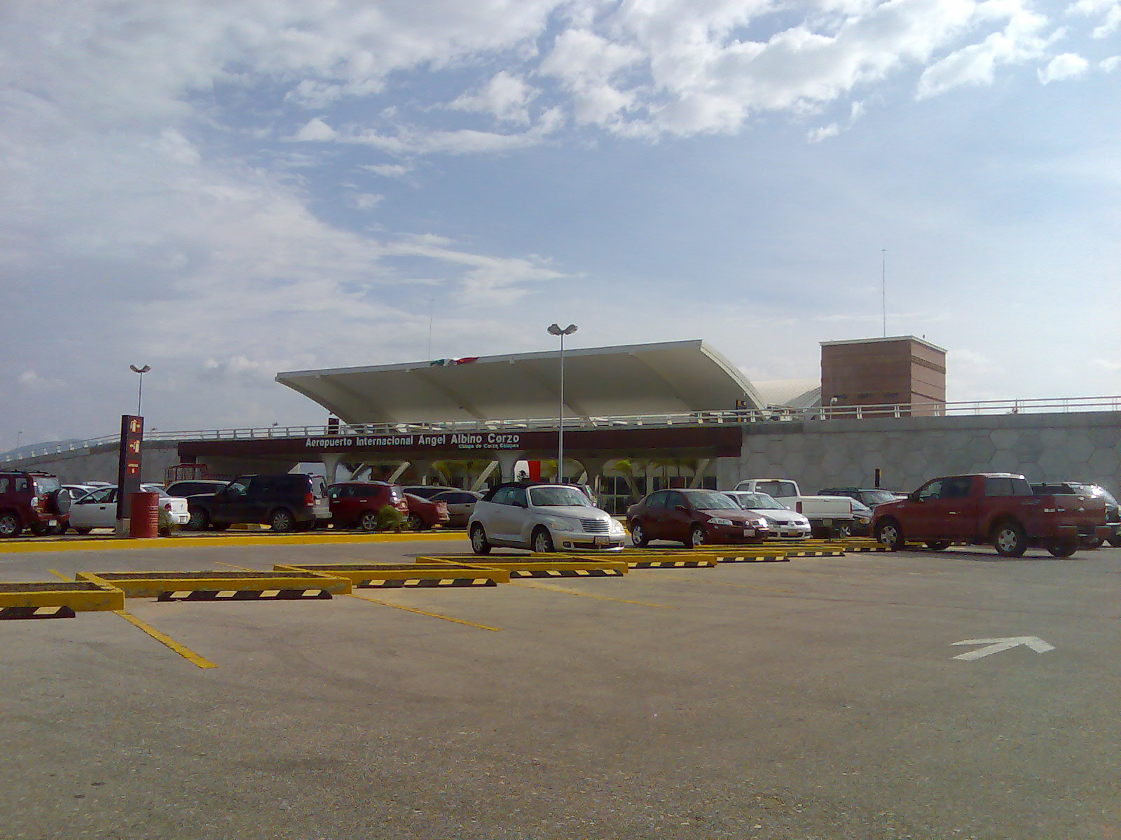 TGZ airport picture